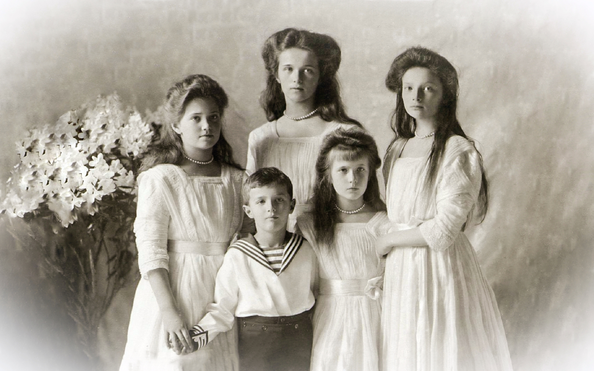 UNSPECIFIED - MARCH 14: Russian imperial family : children of czar of Russia Nicolas II and Alexandra : Grand Duchesses Maria, Olga, Tatiana and front Anastasia, and tsarevitch Alexis, in 1910 (Photo by Apic/Getty Images)